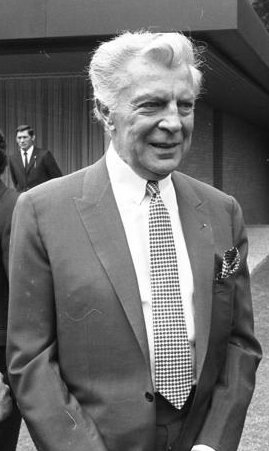 Title: Bonn, Bundeskanzler Brandt empängt Schauspieler Extra information: in der Mitte Viktor de Kowa, 2. von rechts Horst Ehmke People in the image: Viktor de Kowa Factual corrections and alternative descriptions are encouraged separately from the original description. Additionally errors can be reported at this page to inform the Bundesarchiv. Original historic description: Bundeskanzler Willy Brandt empfängt Filmschauspieler